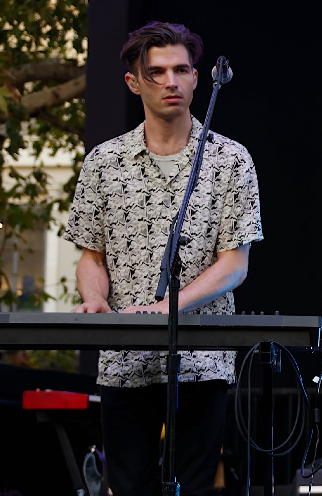 Phases performing live at The Grove shopping center in Los Angeles California on Wednesday July 13th, 2016. Part of the "Grove Sounds" series of free concerts presented by Citi Private Pass.